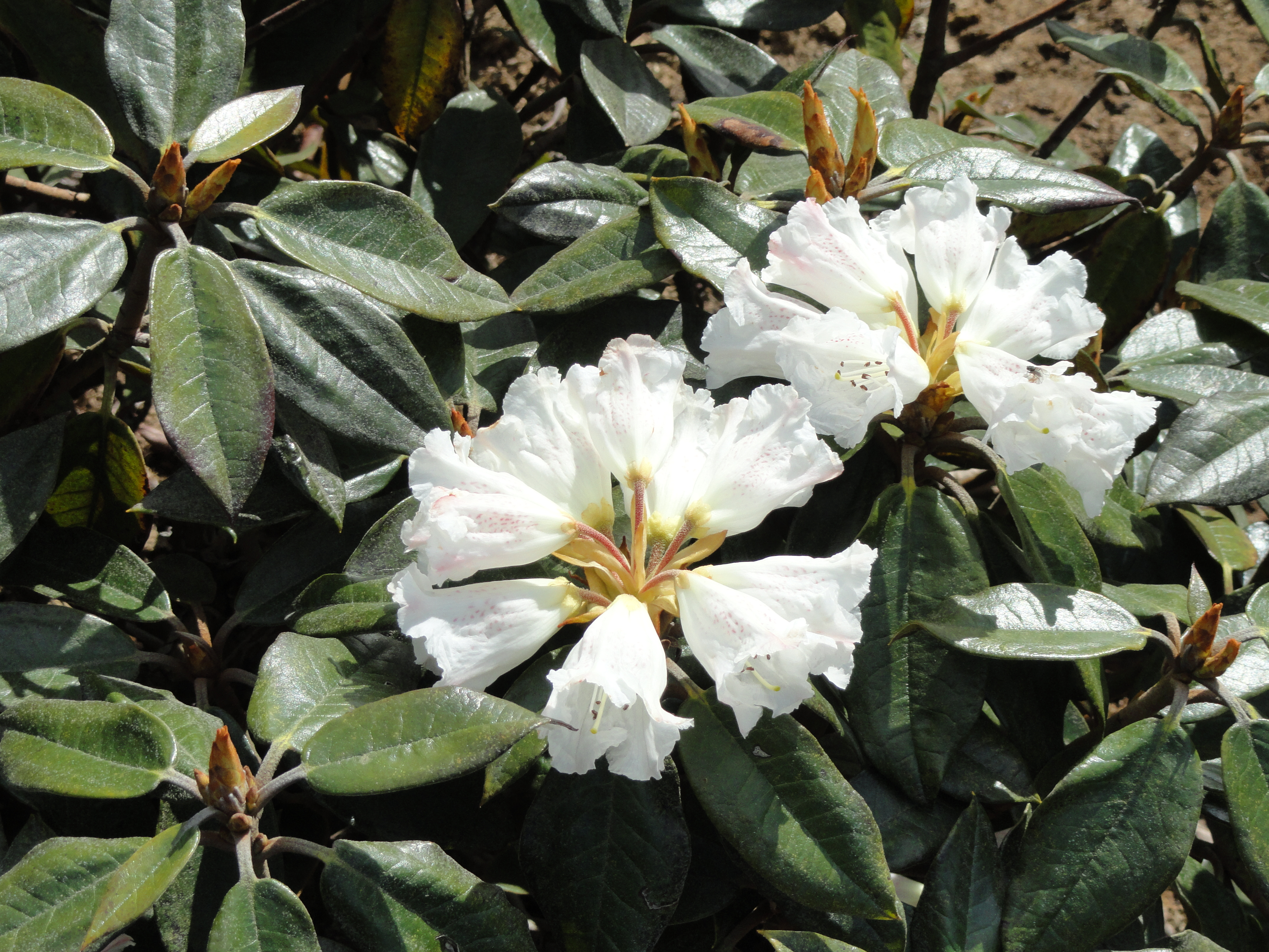 Rhododendron bureavii specimen in the University of Copenhagen Botanical Garden, Copenhagen, Denmark.